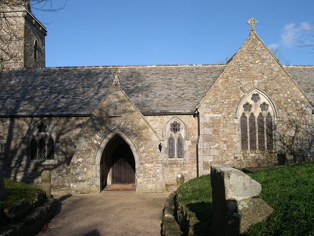 St Hilary Church. This church has been rebuilt after being largely destroyed by fire in 1853.